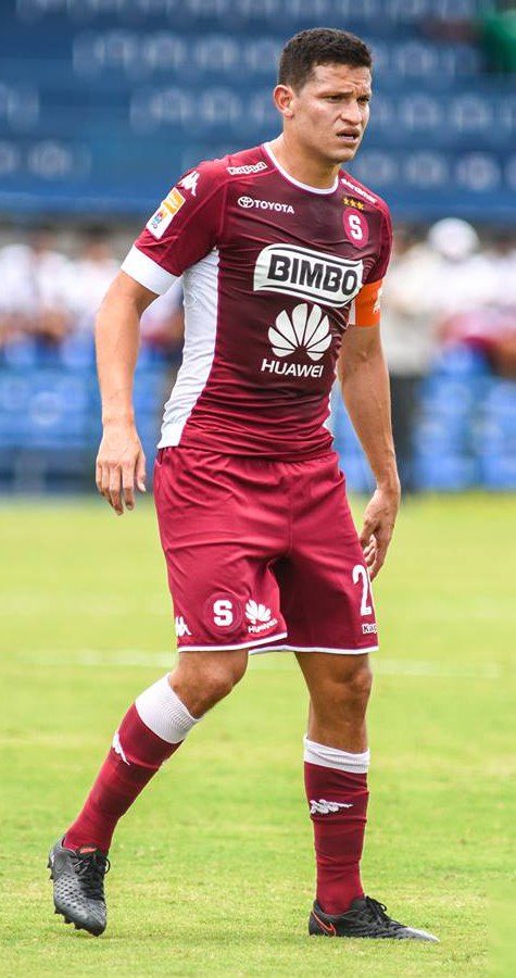 Daniel Colindres playing for Saprissa on July 30th, 2017.